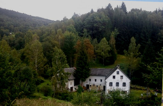 The Labe Hamlet, Šumperk District